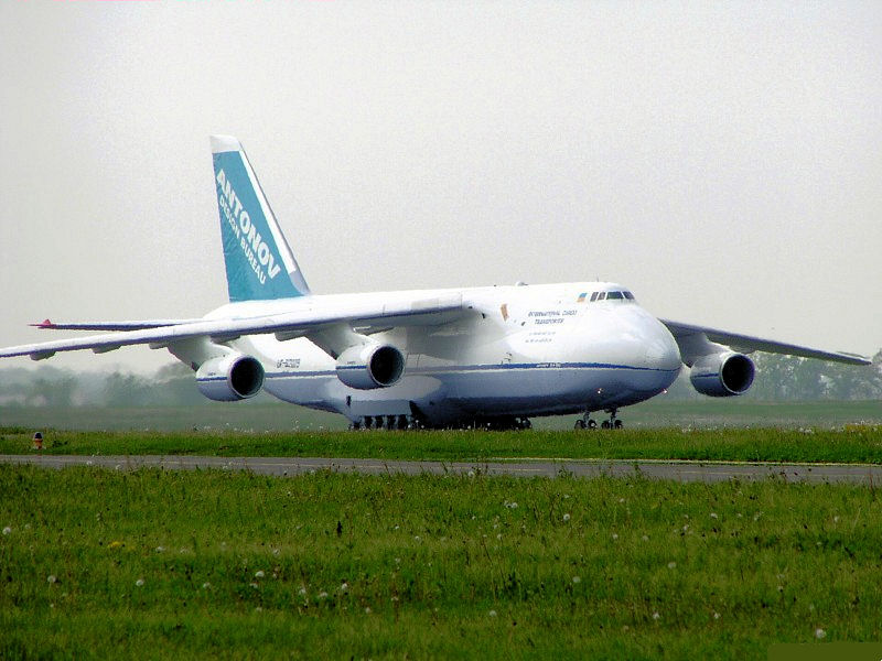 Antonov An-124 Ruslan in Berlin